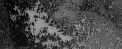 Image obtained by the Mars Global Surveyor & Mars Orbiter spacecraft of southern pole regions of Mars.